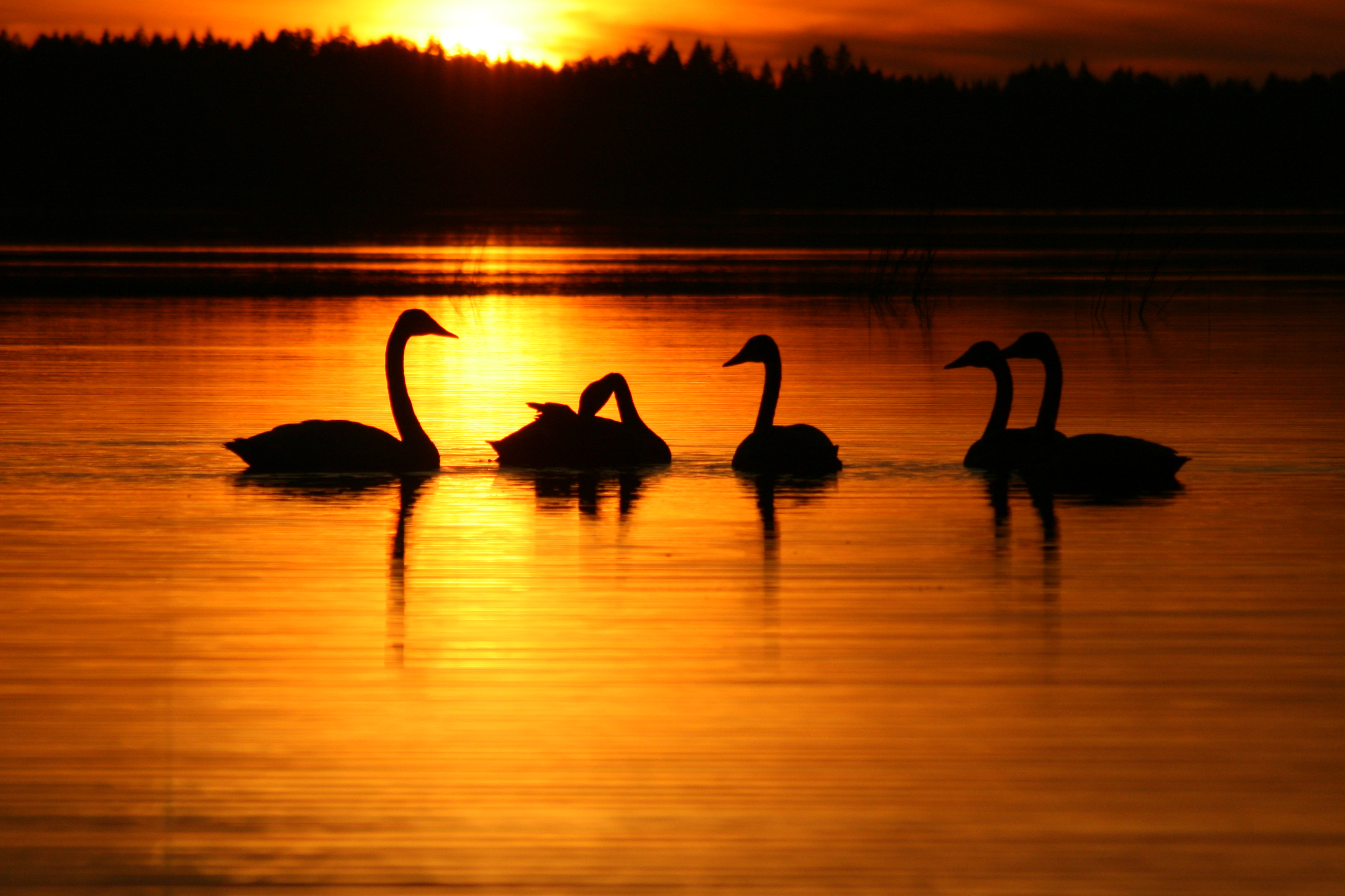 Young Cygnus cygnus in Paunküla Reservoir Estonia.